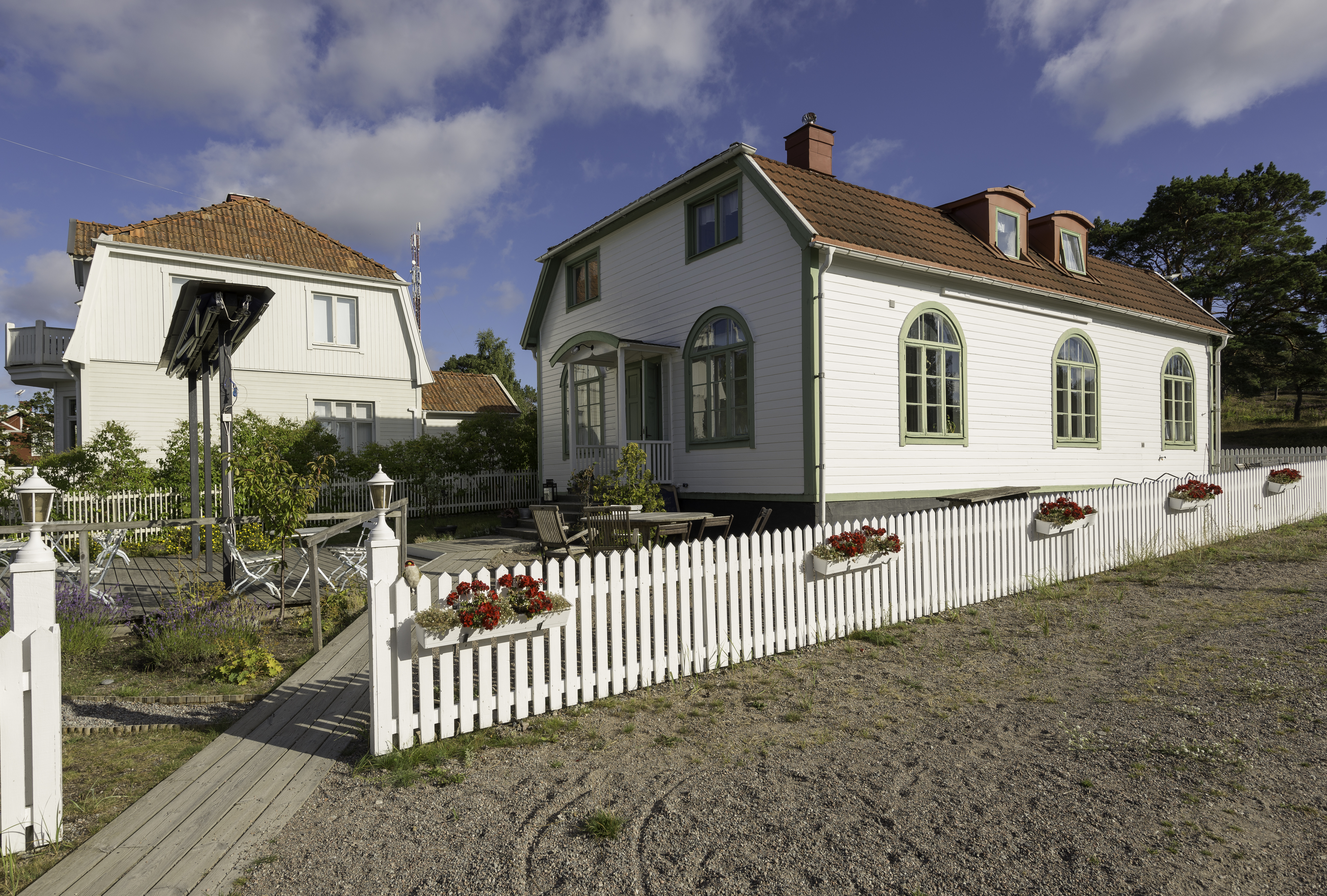 Former mission hall in Sandhamn. Today a small Bed and breakfast inn.